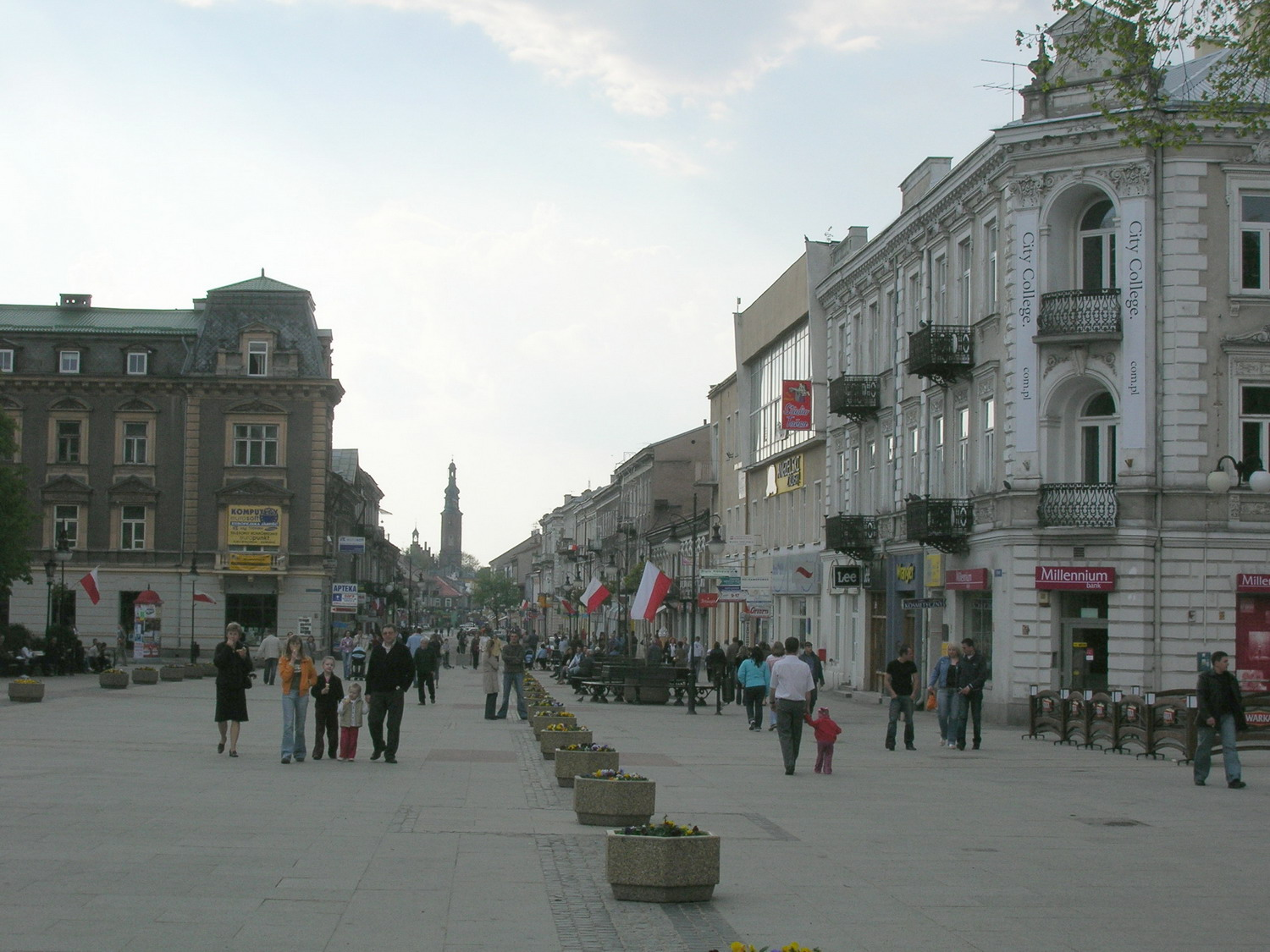 Radom - Żeromskiego street.